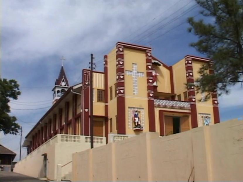 about church, recording with video camera